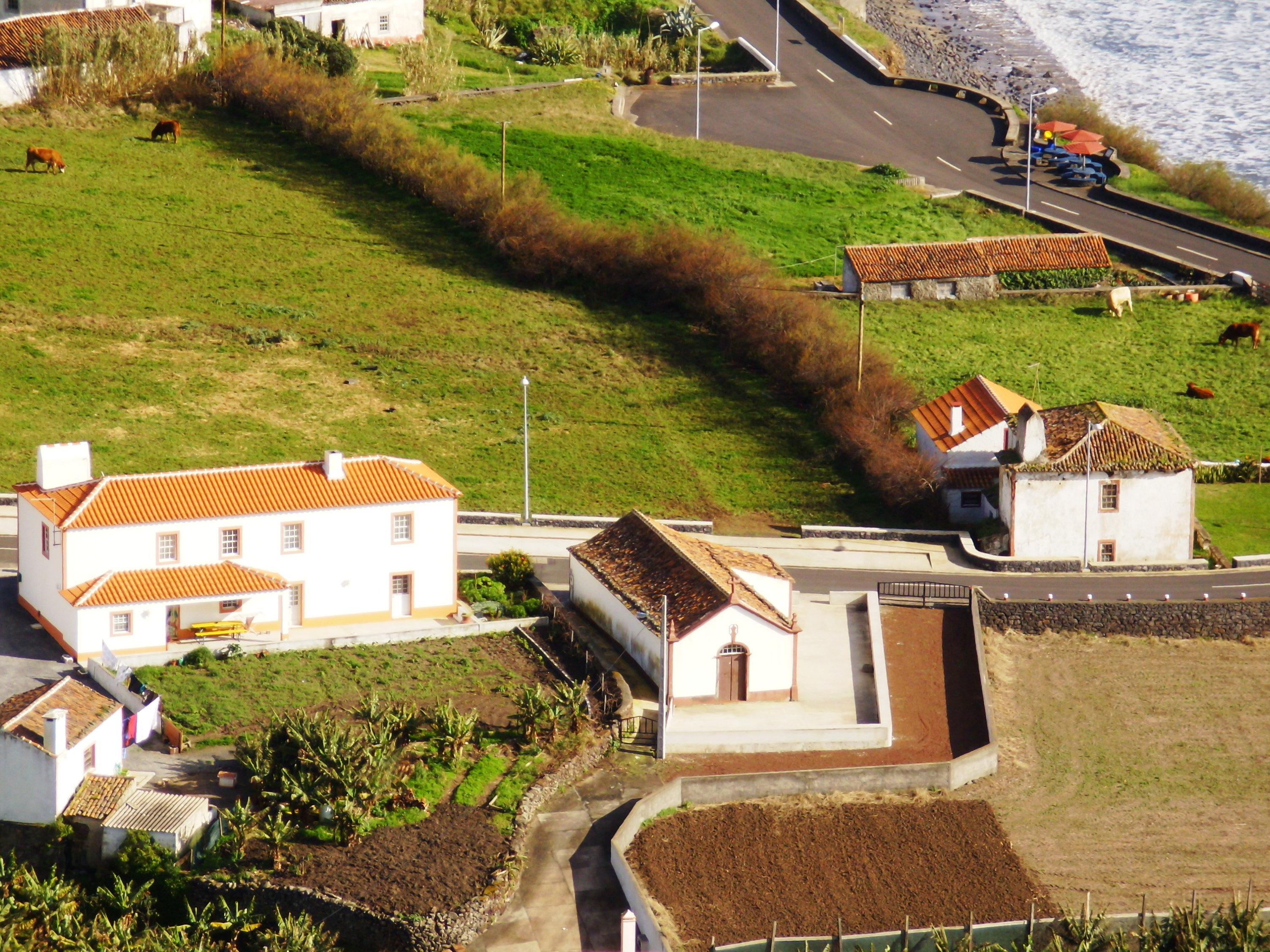 The Chapel of Nossa Senhora dos Remédios (also known as the Chapel of Santo Amaro), by the shore of Praia Formosa, Almagreira, Santa Maria (Azores), Portugal